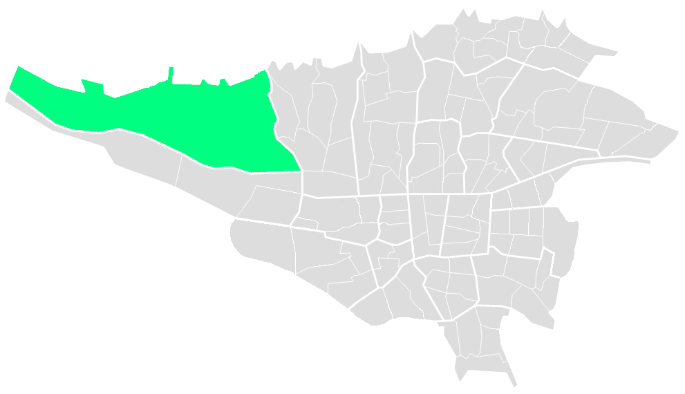 Region 22 of Tehran